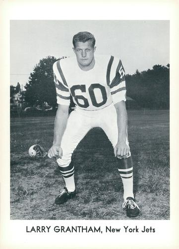 A promotional image of New York Jets player Larry Grantham.